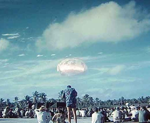 Operation Dominic - Shot Questa - Kiritimati. Mushroom Cloud and observers in the foreground. Type: airdrop. Yield: 670 kt.